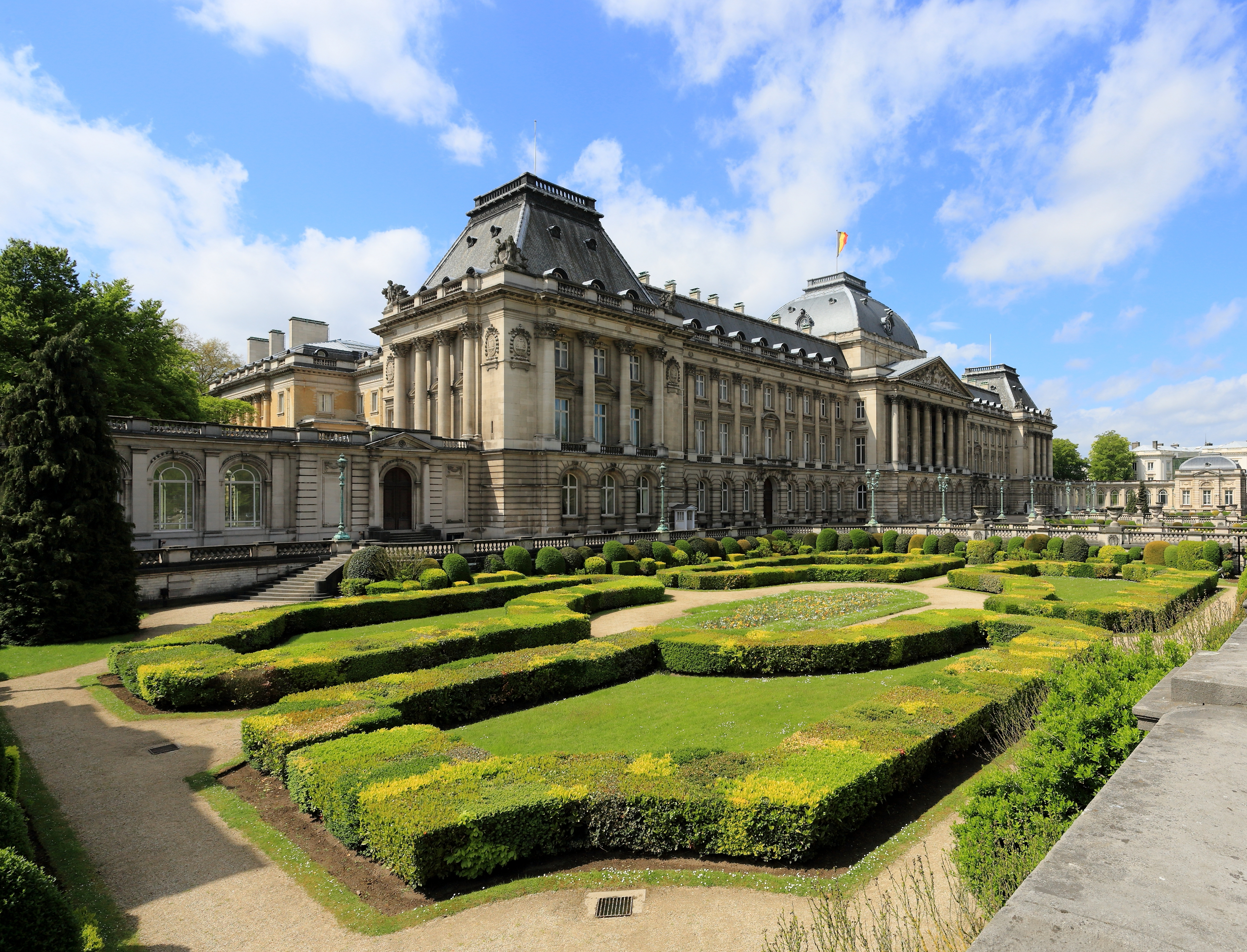 The Royal Palace of Brussels.